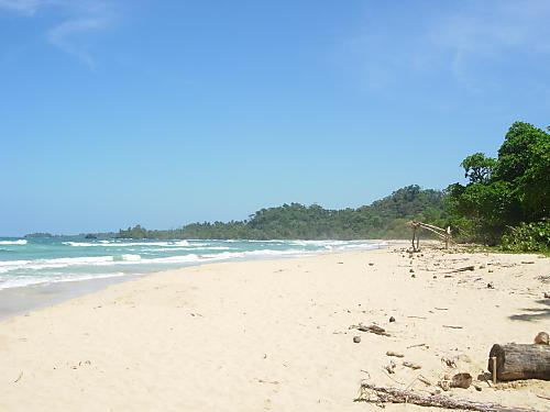 Der Strand Wizard auf der Insel Bastimentos/Bocas del Toro/Panama. own work, 5/2006